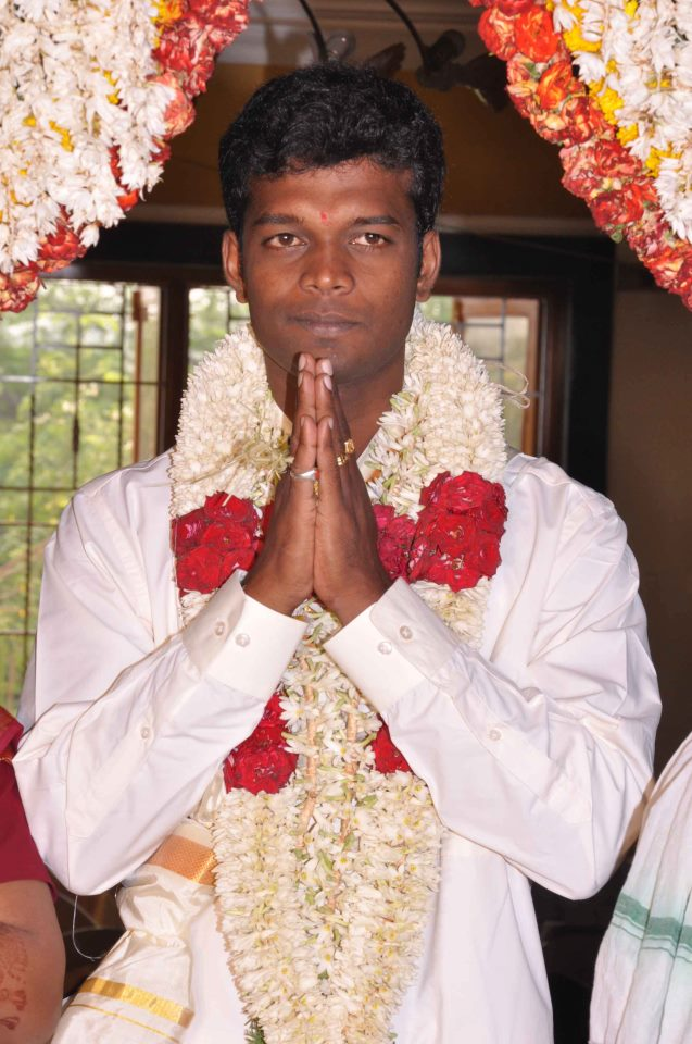 A bridegroom in simple wedding attire in South India.